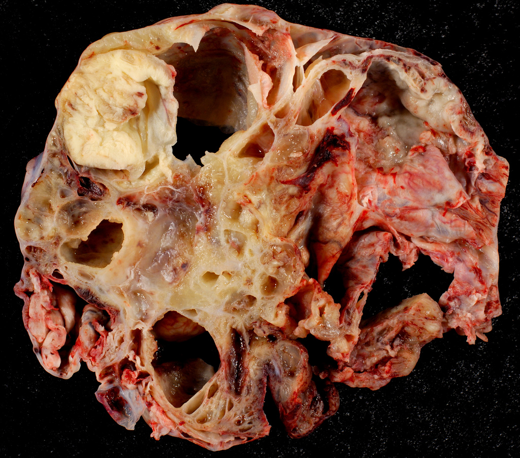 Mucinous Cystadenocarcinoma of the Ovary